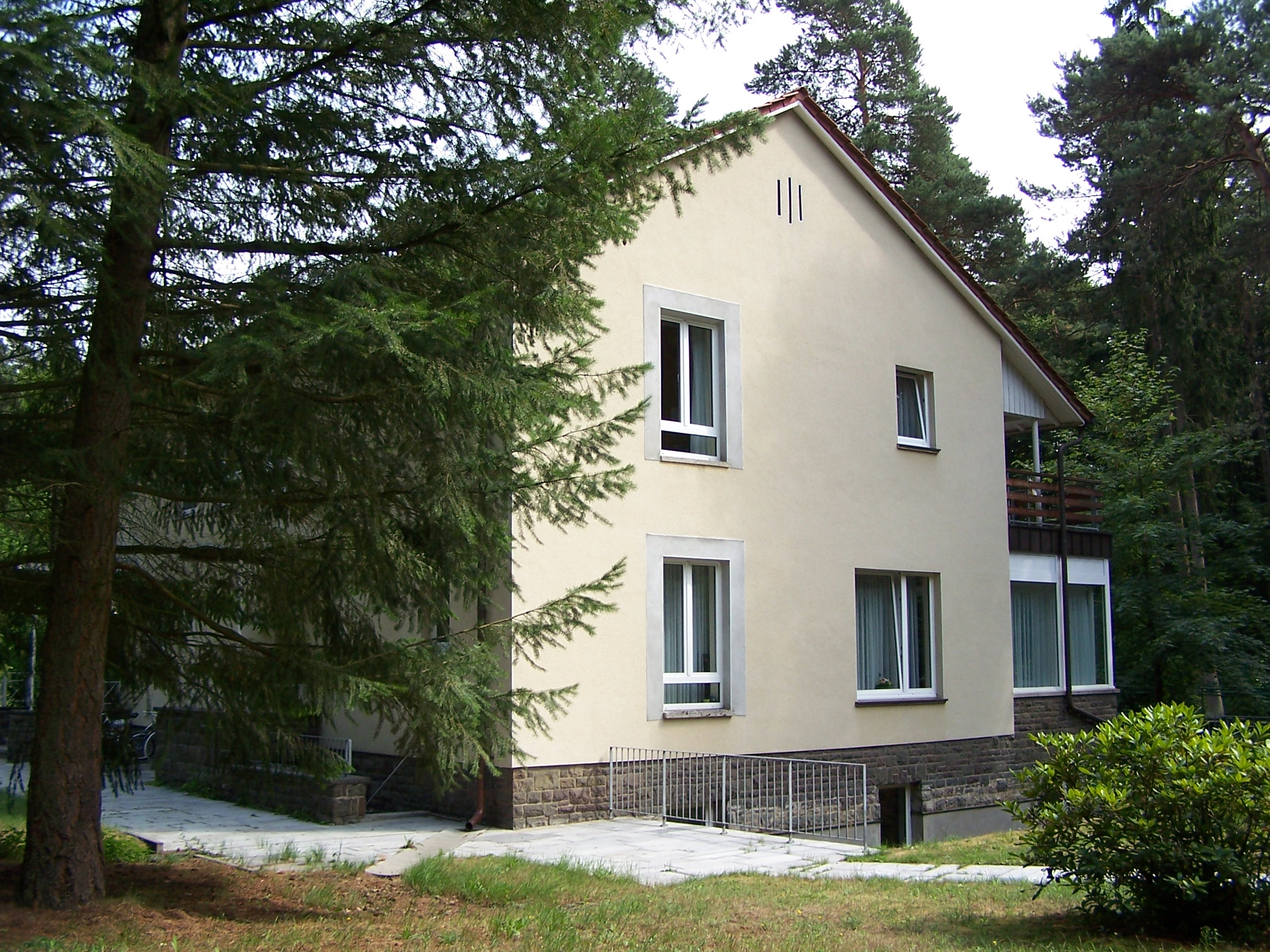 former House 14 (Mielke), today Eichelhäherweg 1